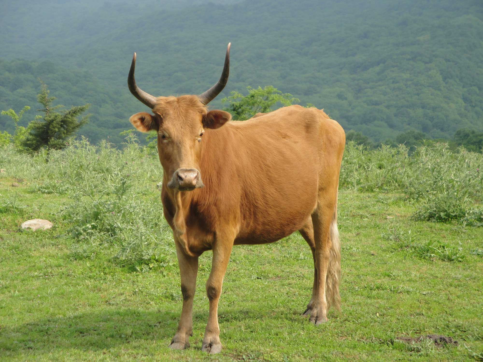 Image of cattle (bull?) in Baliran Forest (Amol, Mazandaran, Iran)